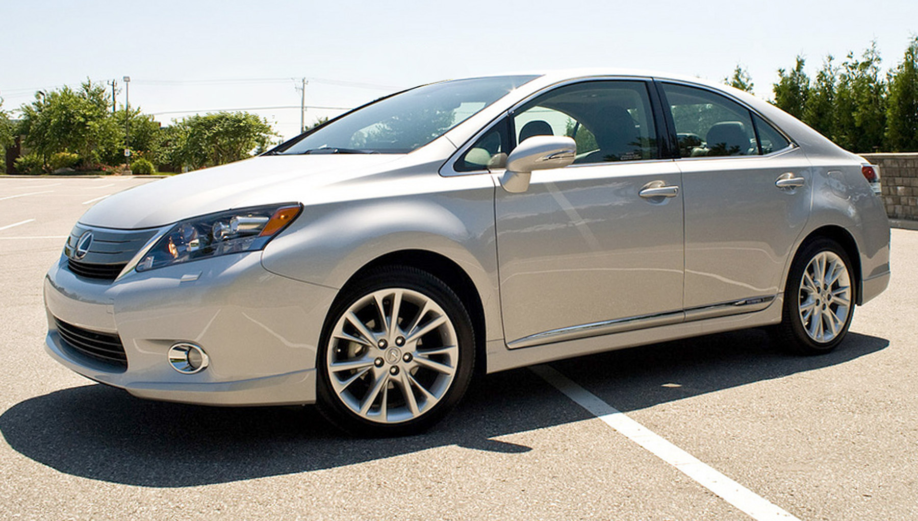 The Lexus HS 250h